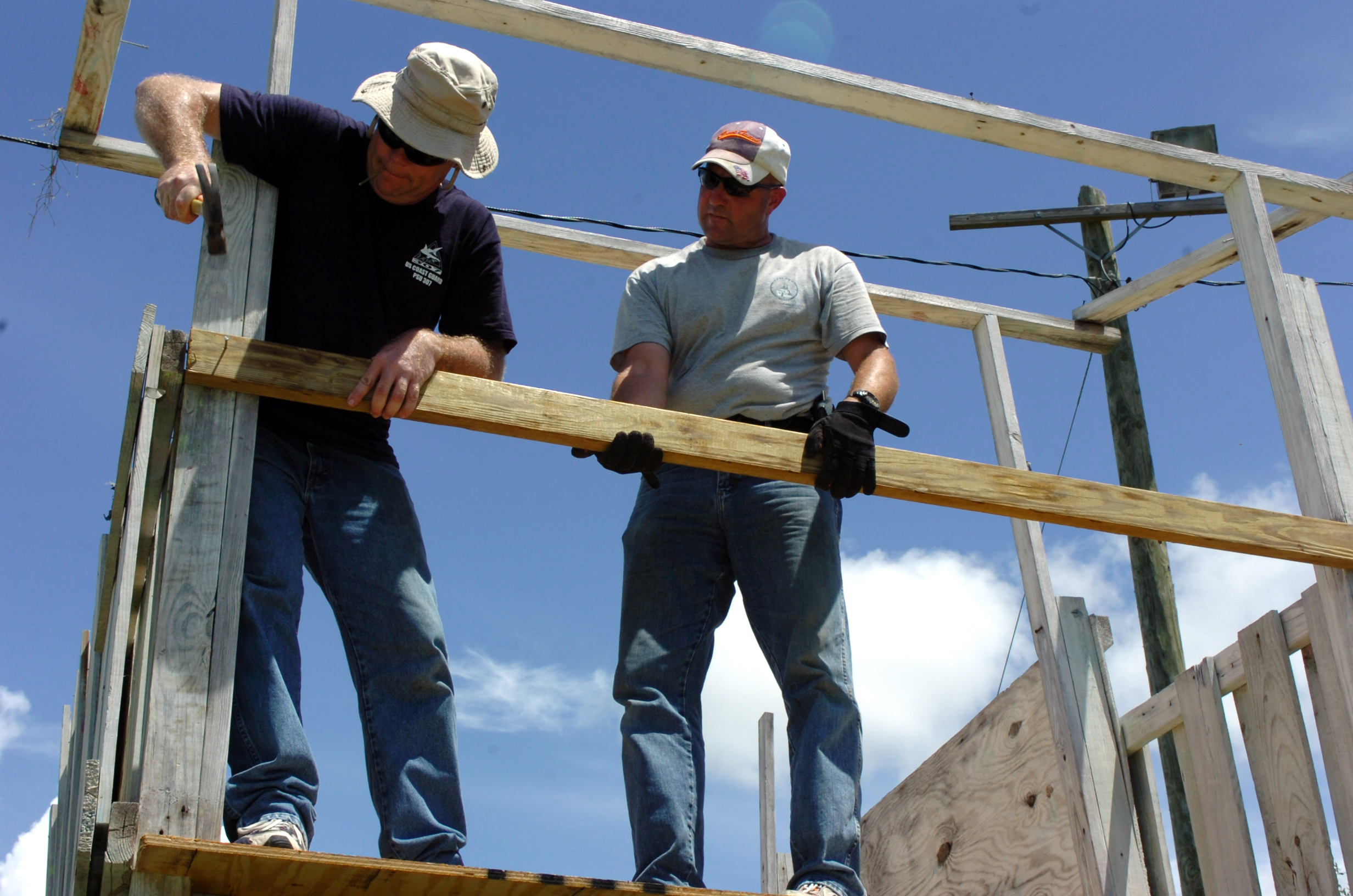 Petty Officer 1st Class Clint Mingus (left), and Chief Petty Officer Christopher Lipke, both with the U.S. Coast Guard Reserve's 307 Port Security Unit, lend a hand and hammer to rebuilding efforts at the Morale, Welfare and Recreation Paintball Range, Sept. 21, 2008. Personnel from both U.S. Naval Station Guantanamo Bay and Joint Task Force Guantanamo volunteered to help rebuild the facilities damaged during Hurricane Ike. JTF Guantanamo conducts safe, humane, legal and transparent care and custody of detained enemy combatants, including those convicted by military commission and those ordered released. JTF Guantanamo conducts intelligence collection, analysis and dissemination for the protection of detainees and personnel working in JTF Guantanamo facilities and in support of the Global War on Terror. JTF Guantanamo provides support to the Office of Military Commissions, to law enforcement and to war crimes investigations. JTF Guantanamo conducts planning for and on order responds to Caribbean mass migration operations.